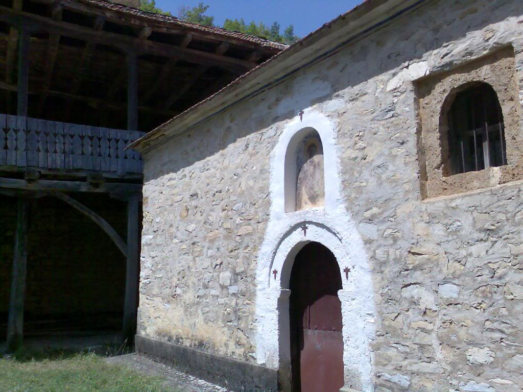 Village of Vir, Poreche region, Republic of Macedonia